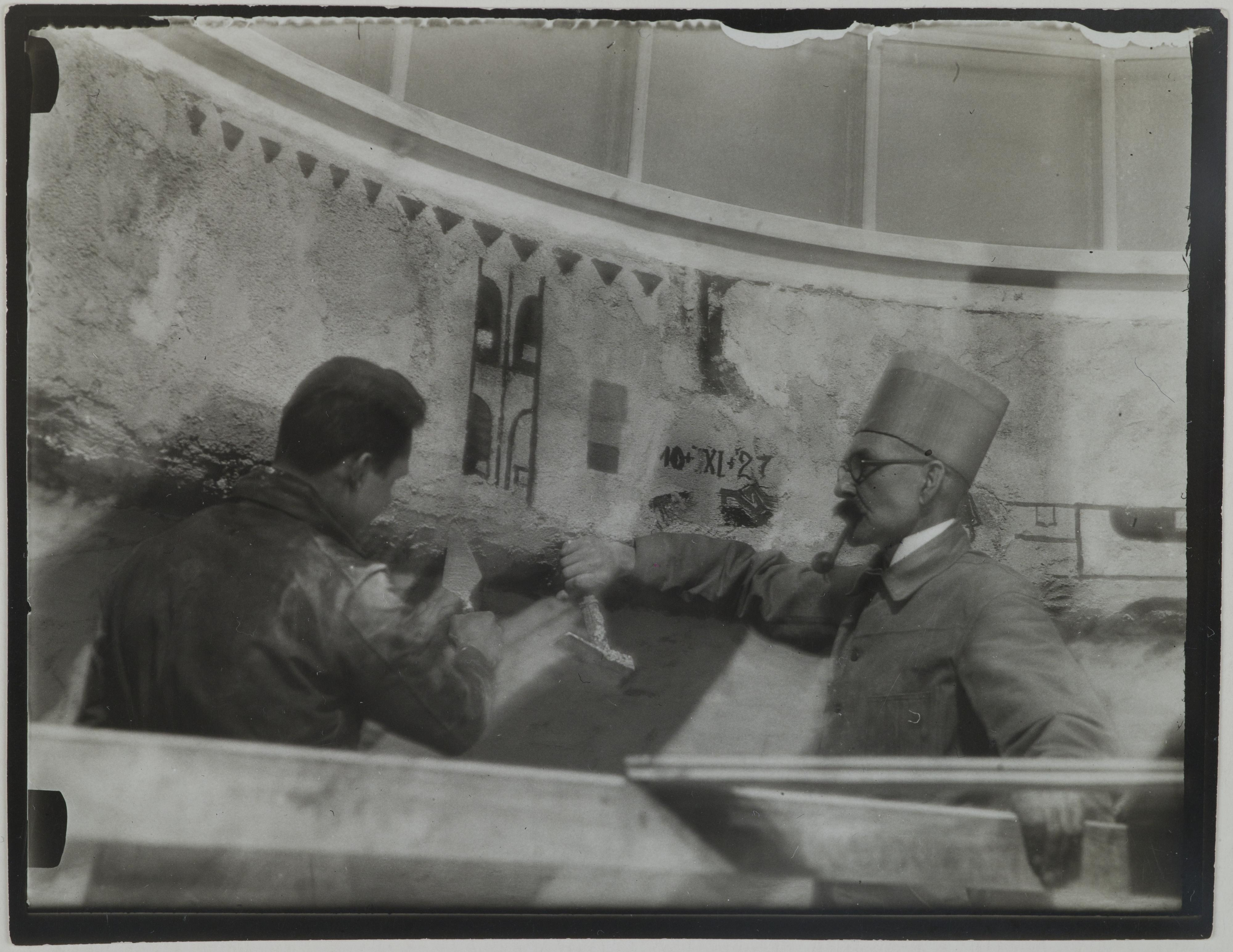 Akseli Gallen-Kallela with another man making the Kalevala cupola frescoes in the National Museum of Finland, 1928.